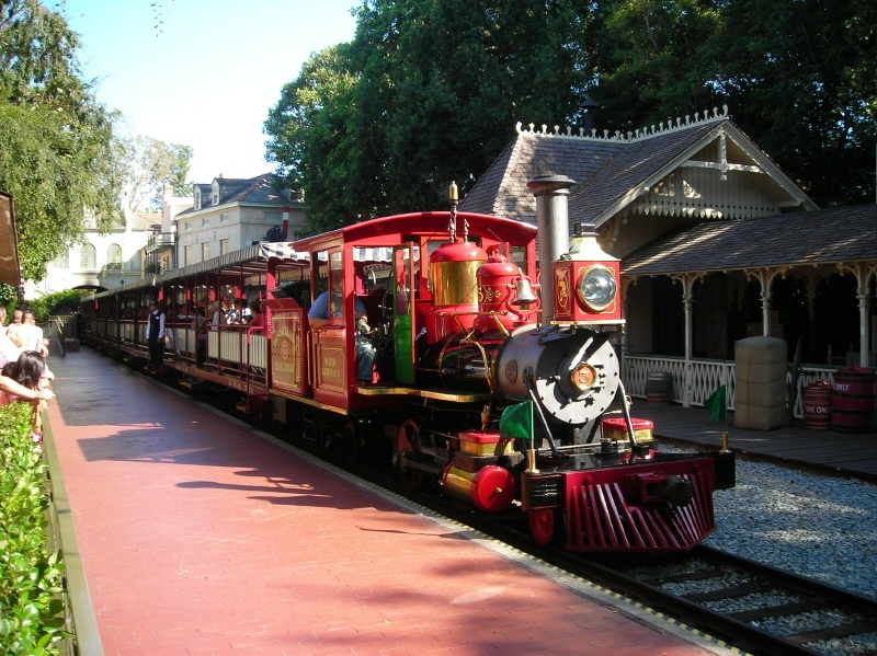 Disneyland locomotive 5, Ward Kimball, rolls into New Orleans Square Station. July, 2007.